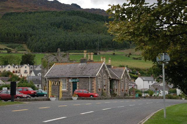 Former railway station at Carlingford, Co Louth. For the background to the Dundalk, Newry and Greenore Railway see 192475. This is the station at Carlingford (between Greenore and Omeath) looking towards Omeath. It is now the tourist office. The road in the foreground is built on the trackbed of the line.